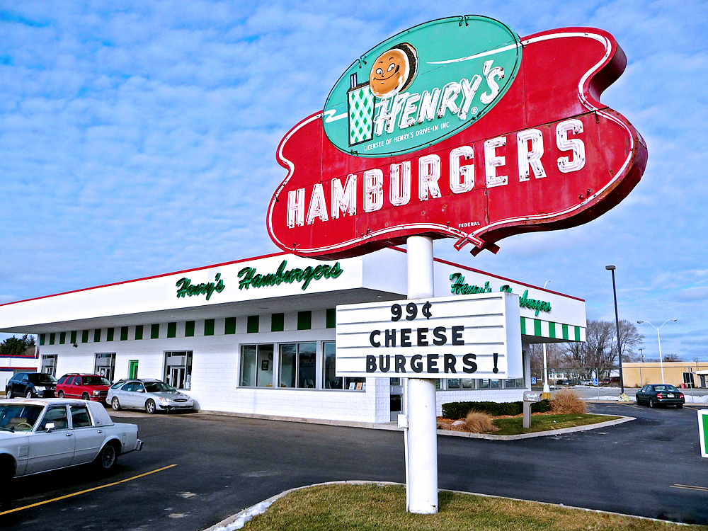 The last remaining Henry's, Benton Harbor, MI, 2009